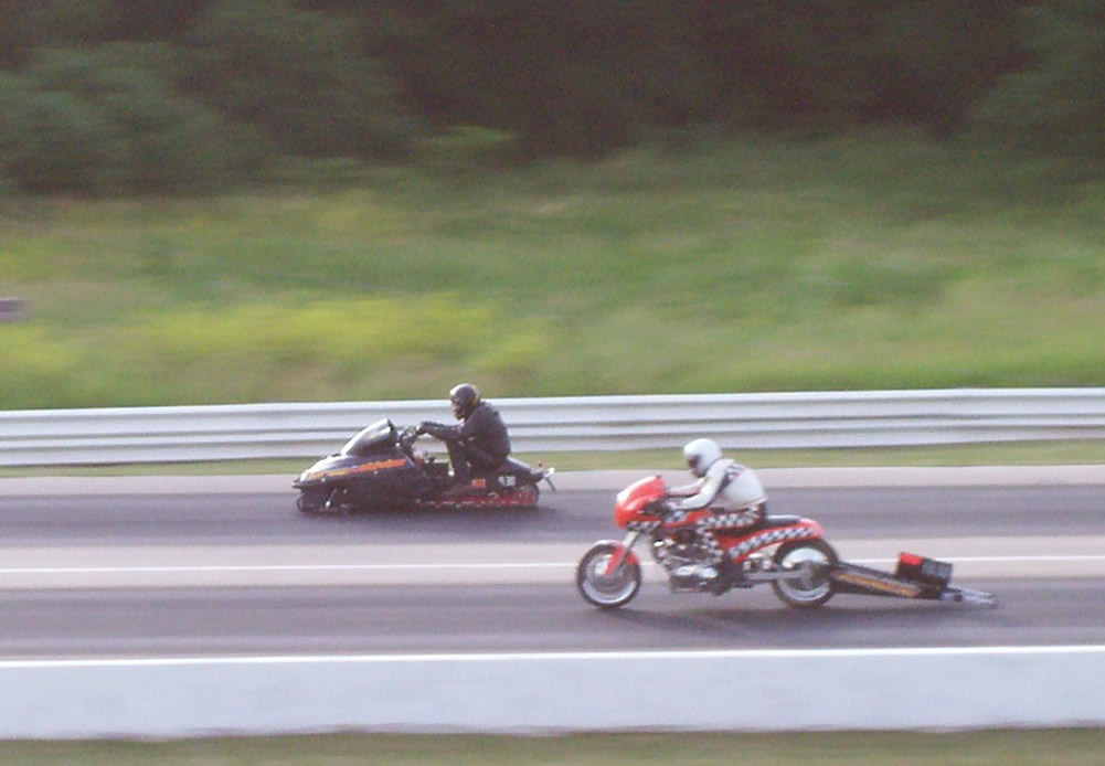 A snowmobile racing against a Pro-Bike on the drag strip at Wisconsin International Raceway near Kaukauna, Wisconsin, USA.